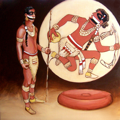 An oil painting showing a American Indian chunkey player. It shows a design based on a S.E.C.C. engraved shell gorget found near Eddyville in Lyon County, Kentucky, as well as an extrapolation of what a chunkey player may have looked like. Artist Herb Roe